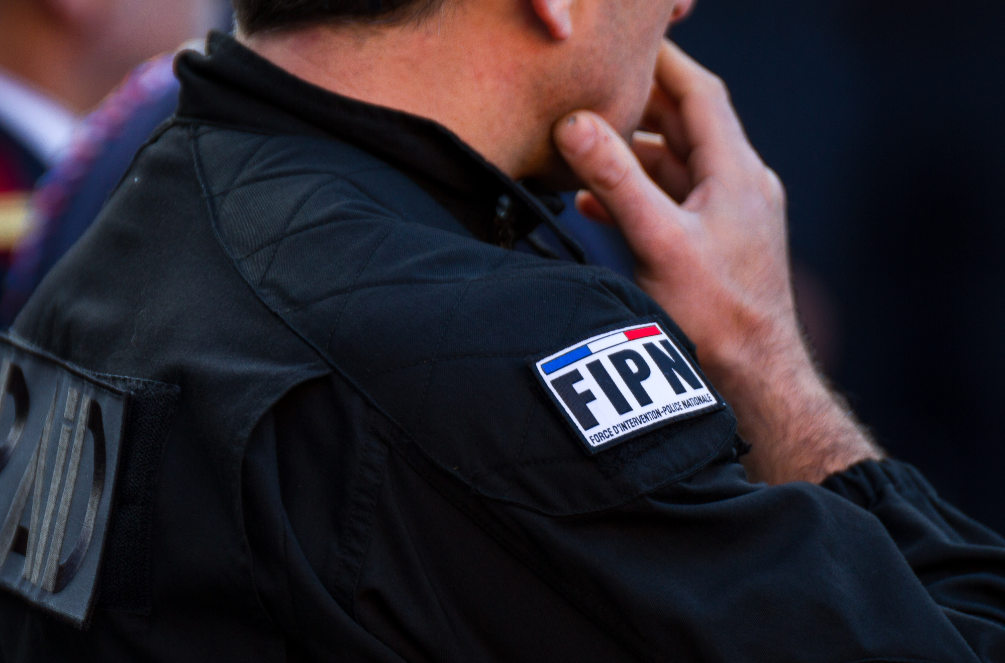 An officer of the National Police Intervention Force (FIPN) attends a visit of the French Interior minister at a Police station in Toulouse.